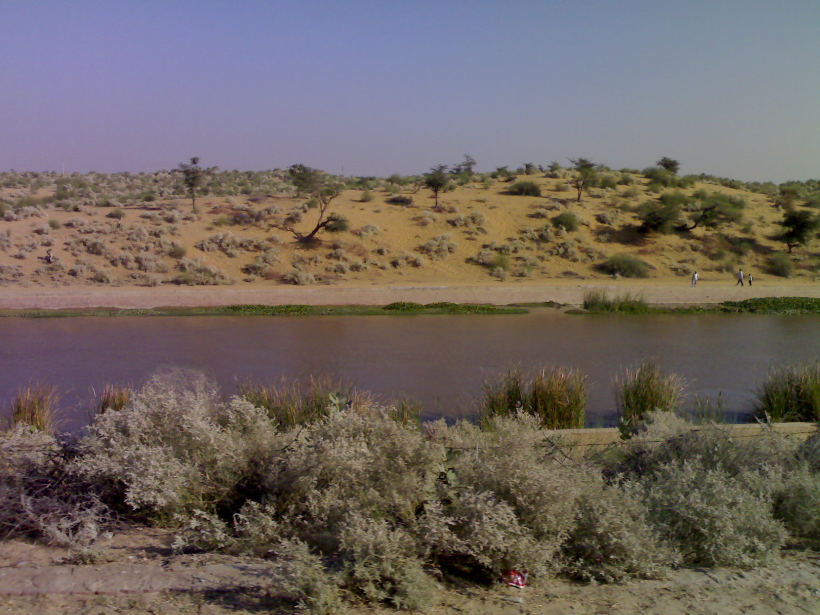 I(User:Shemaroo aka Shivender Singh) have taken this photo for wikipedia.In this image you can see Indiar Gandhi Canal(Rajasthan Canal) flowing in Thar desert.This photo is taken near Sattasar village in Bikaner District. Shemaroo (talk) 04:39, 24 October 2011 (UTC)